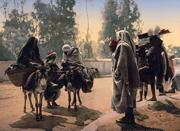 Photo of people before Bab Alioua, Tunis. This color photochrome print was taken in 1899 in Tunis, Tunisia.